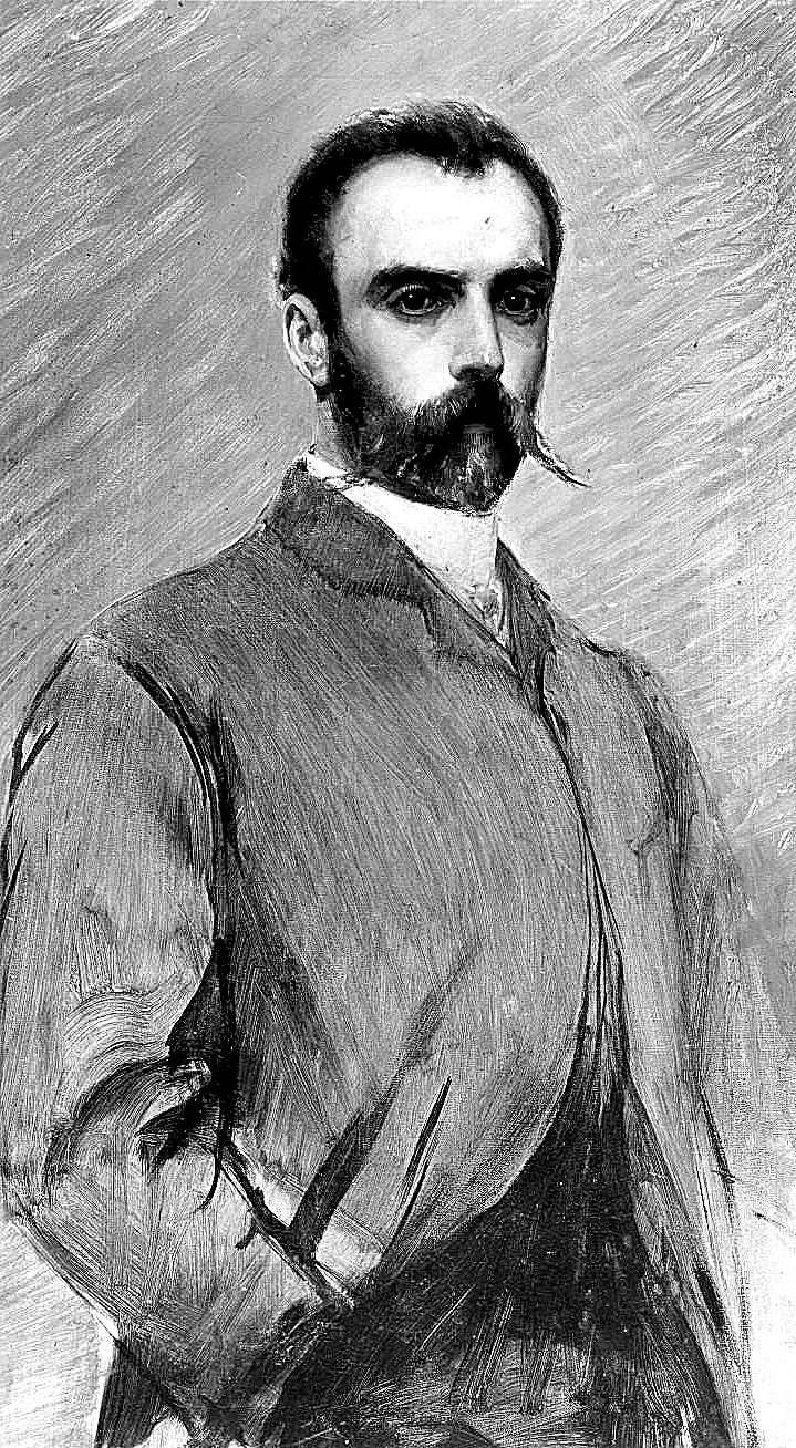 Luis Ricardo Falero oil on canvas 105 x 56 cm